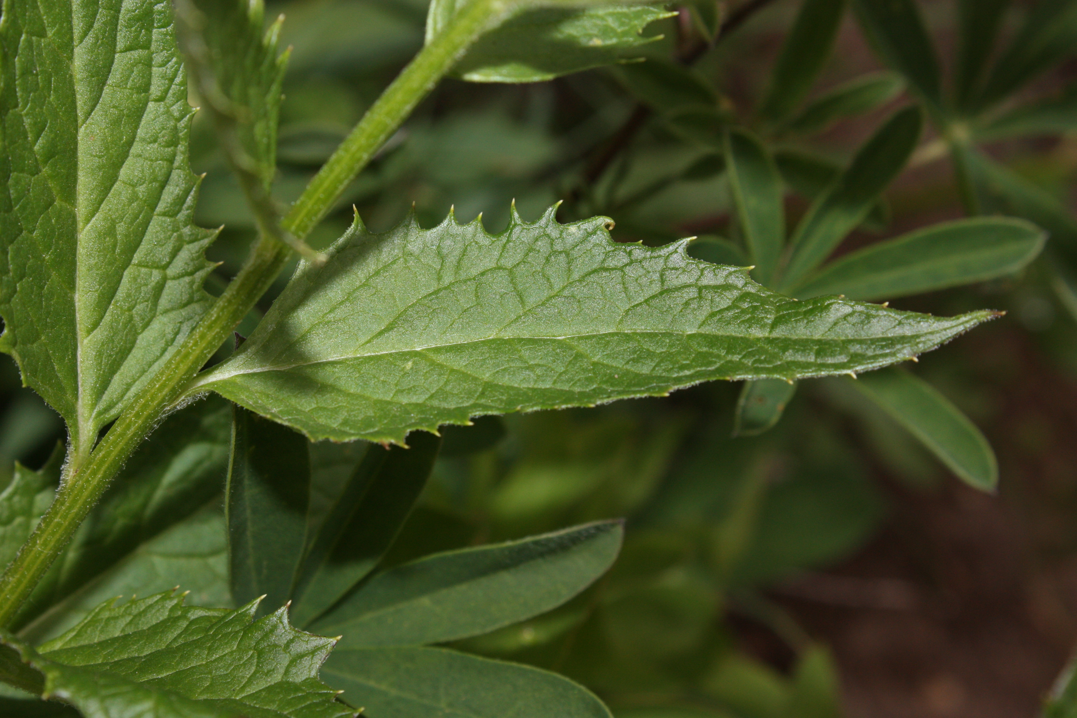 American Saw-wort